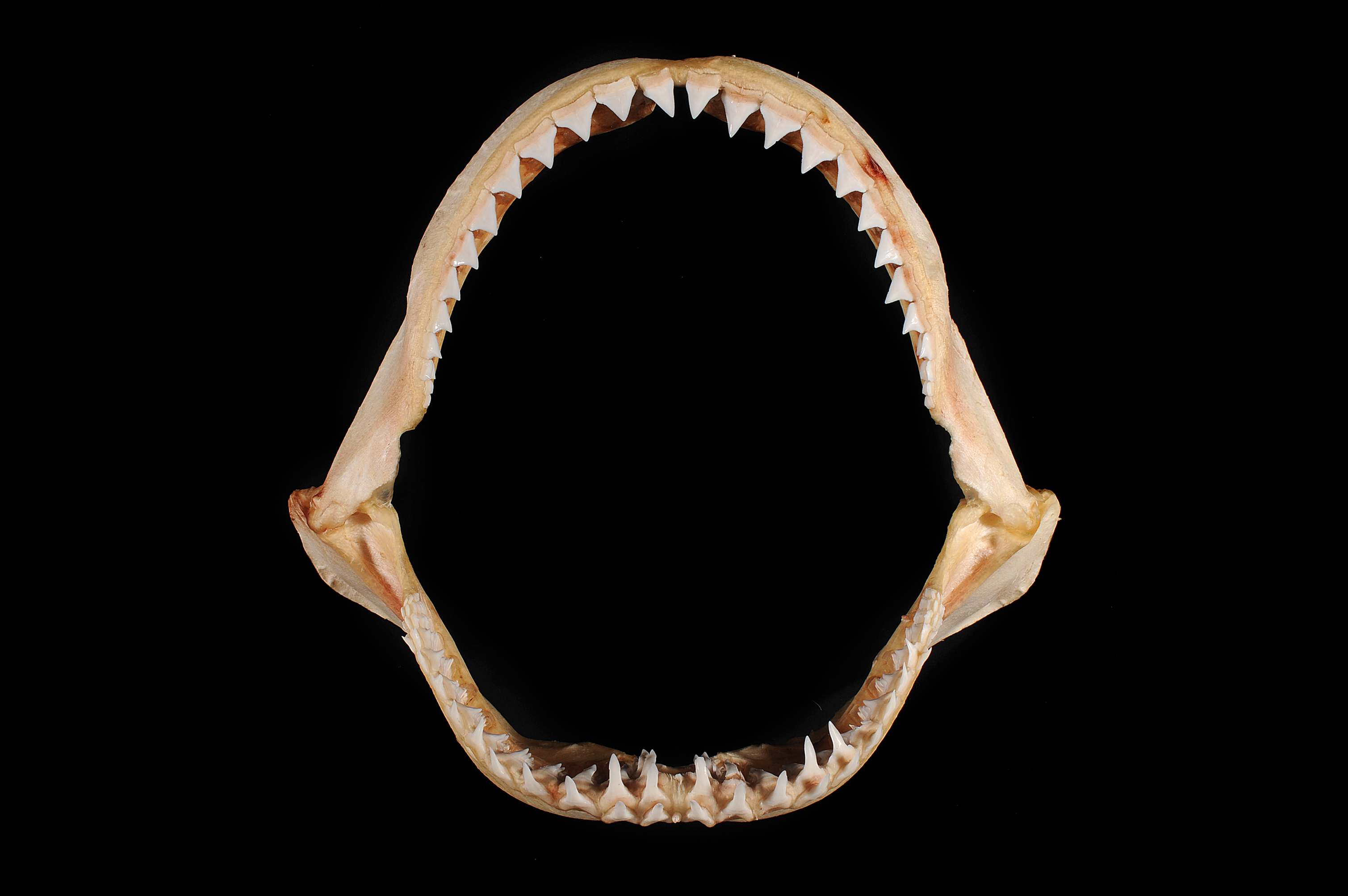 Jaws of a speartooth shark (Glyphis glyphis) from the coastal marine waters of the Daru region, Western Province, Papua New Guinea.